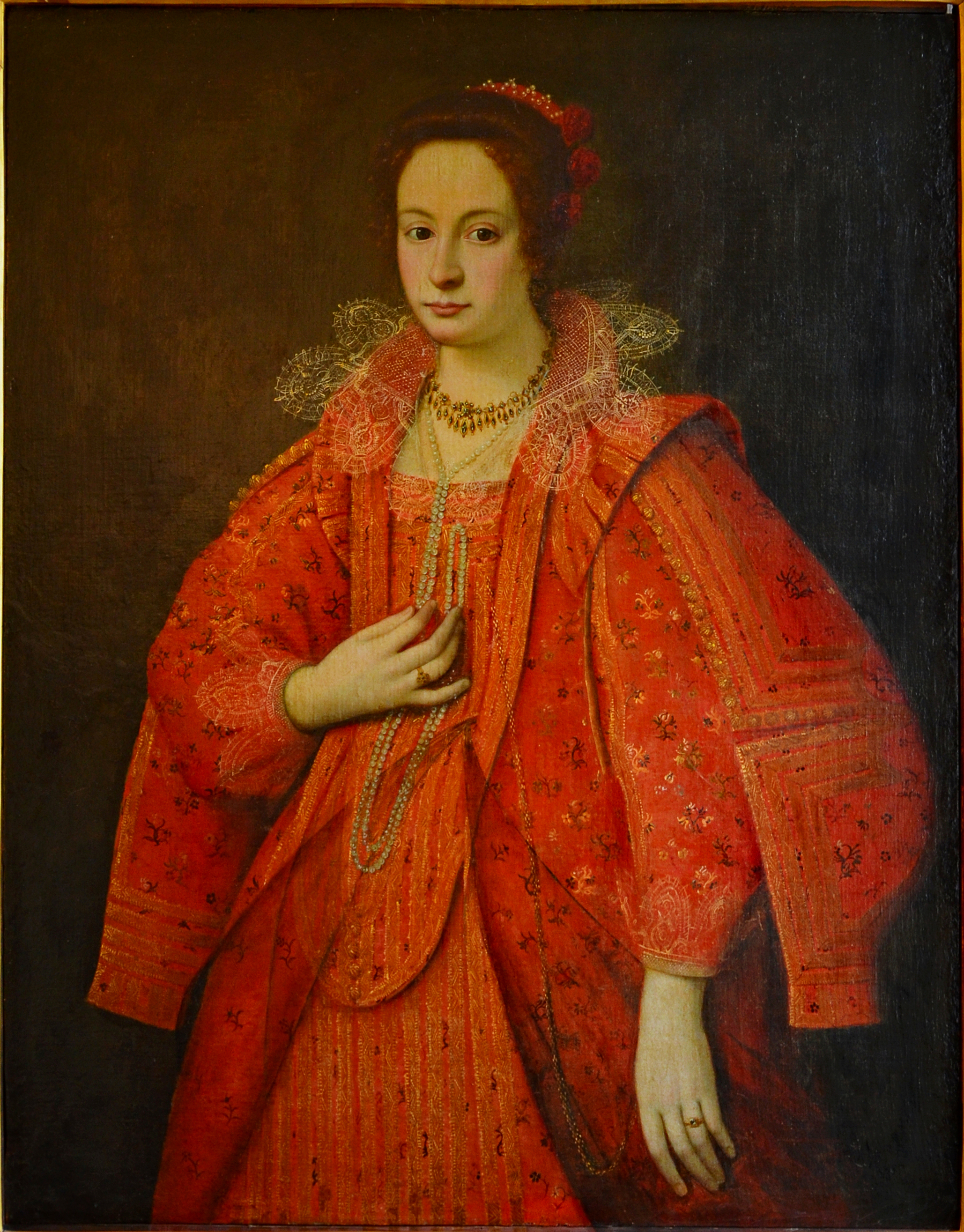 The Lady in red clothes